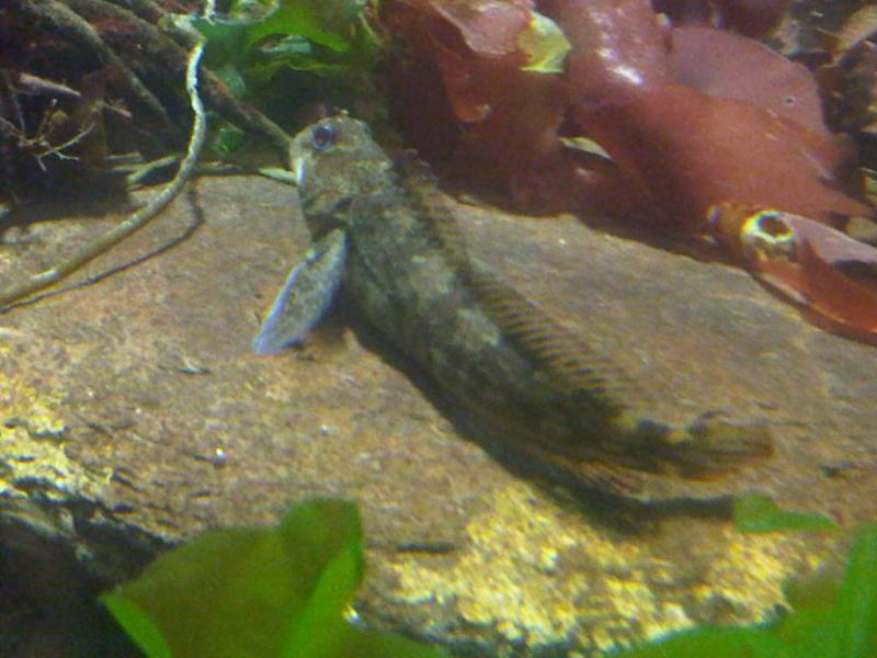 Tompot blenny (Parablennius gattorugine) in Kew Gardens, England.